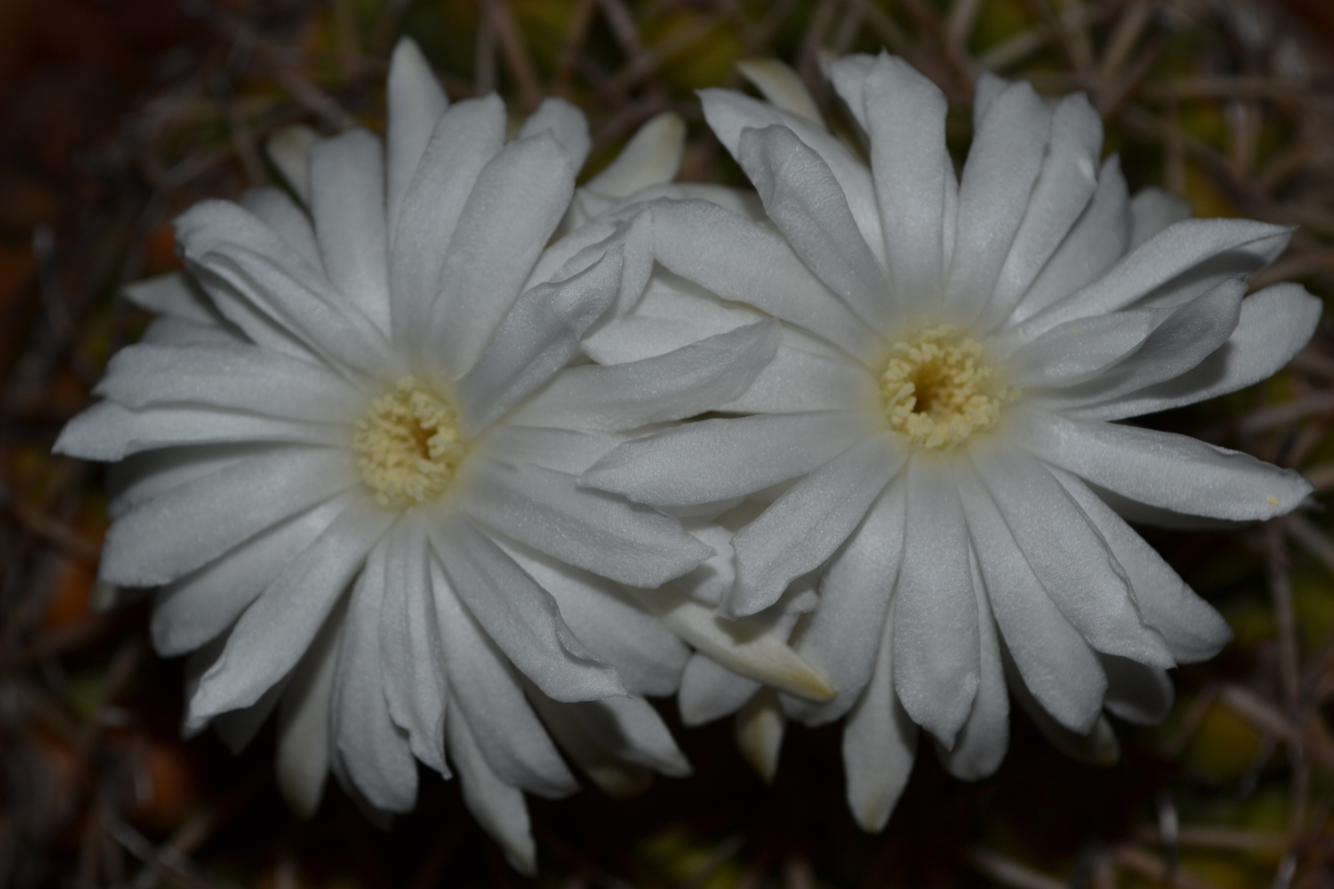 Flowers, plant from type habitat, Goias, Brasil